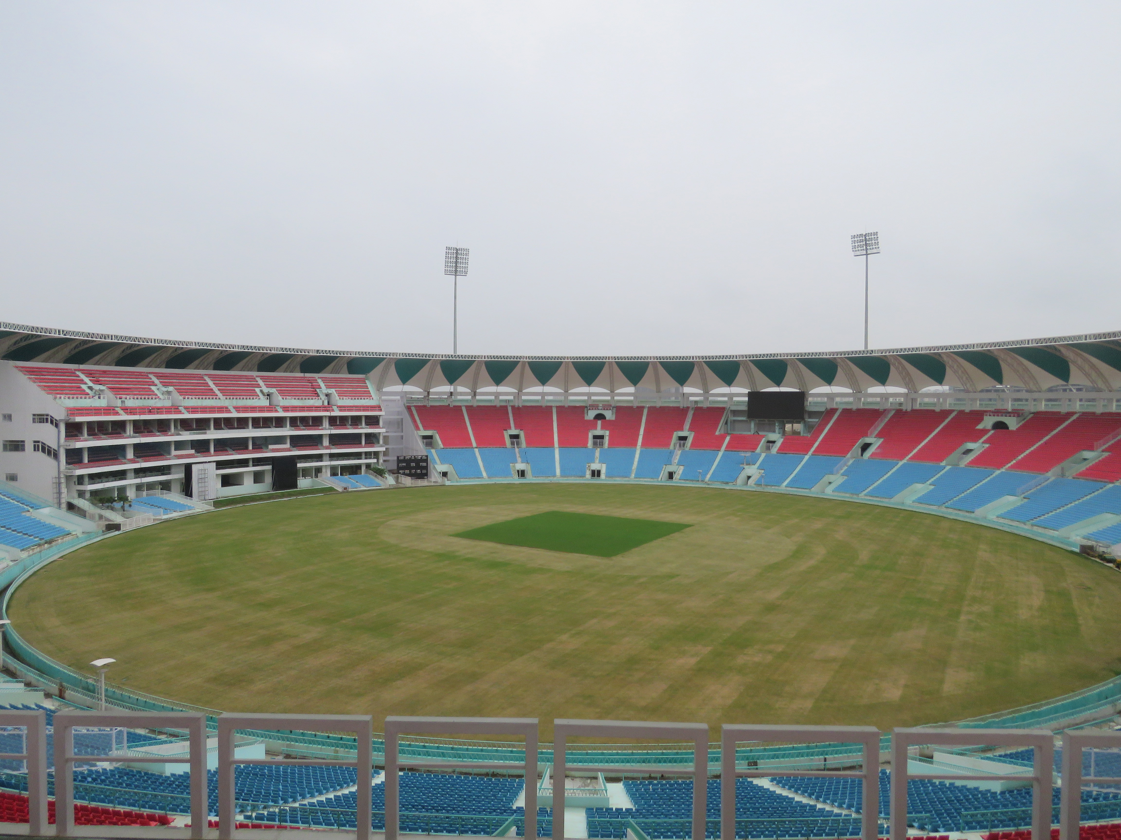 The International Level Ekana Cricket Stadium is another fitting tribute to the city of sport and a major thrust over the years will be to make it incomparable in terms of sporting variety, excellence and to offer world class facilities to sportsperson and the spectators